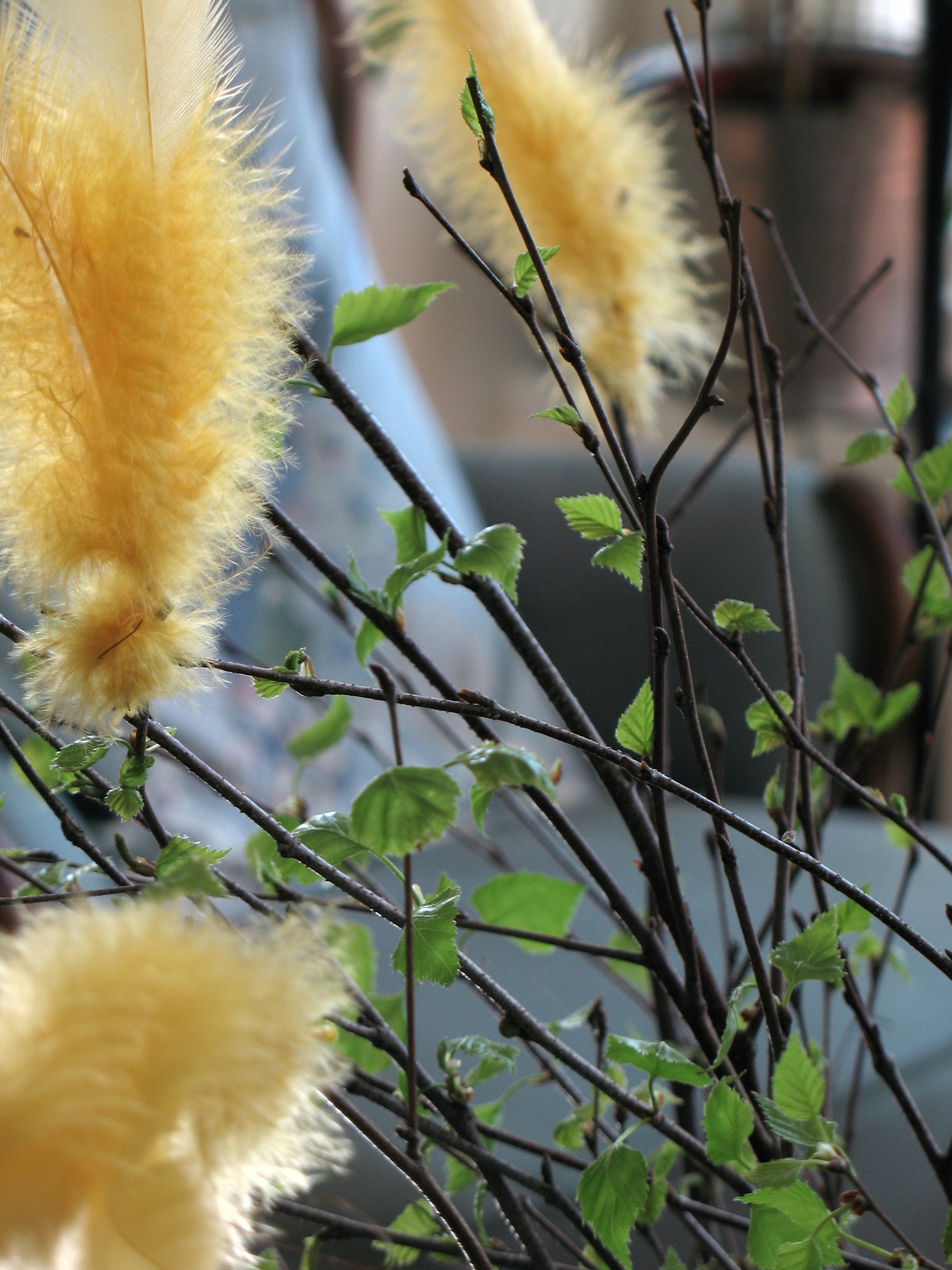 Easter decoration (birch twigs decked with yellow feathers). Image taken on 2007-04-13 in Lund, Sweden.